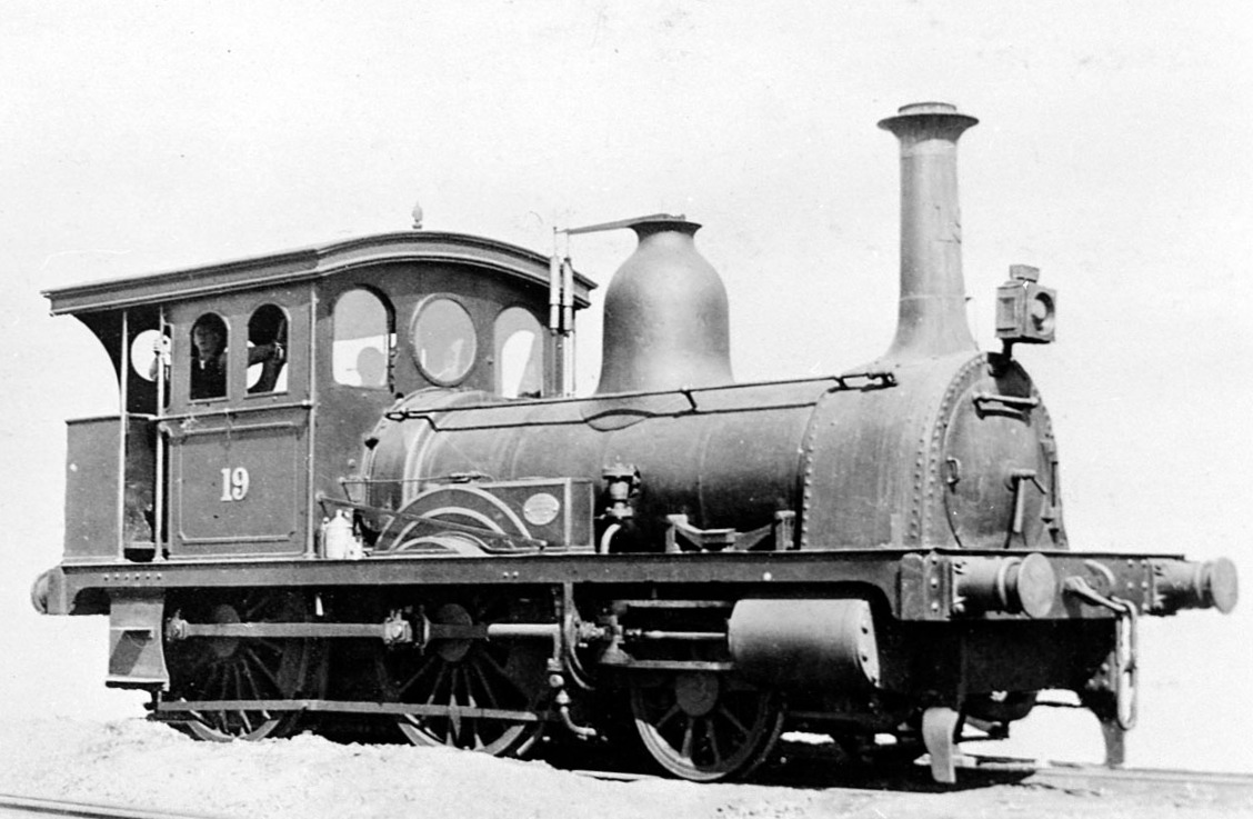 South Australian Railways A Class No. 19